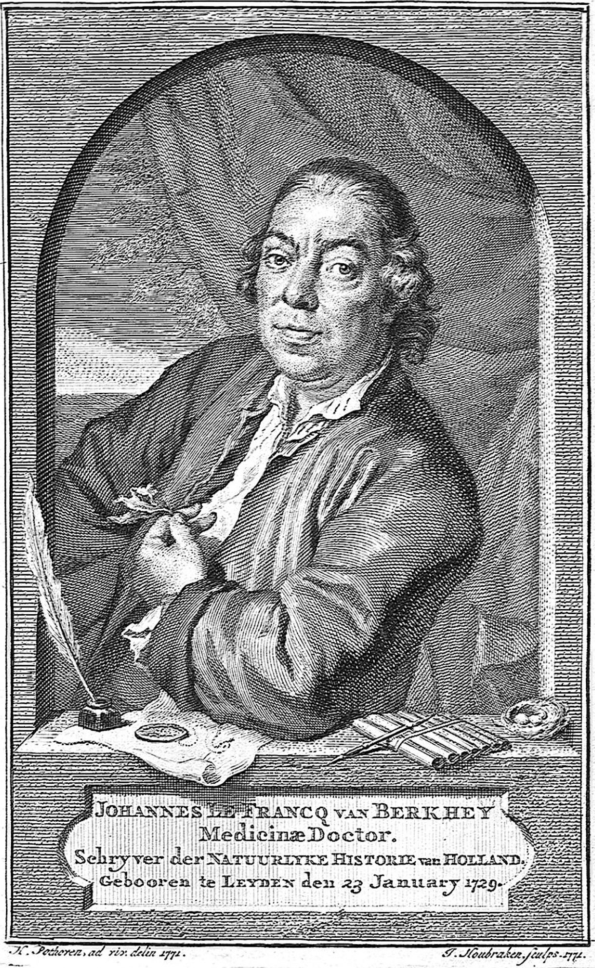 Johannes le Francq van Berkhey (1729-1812) Dutch naturalist, poet and painter